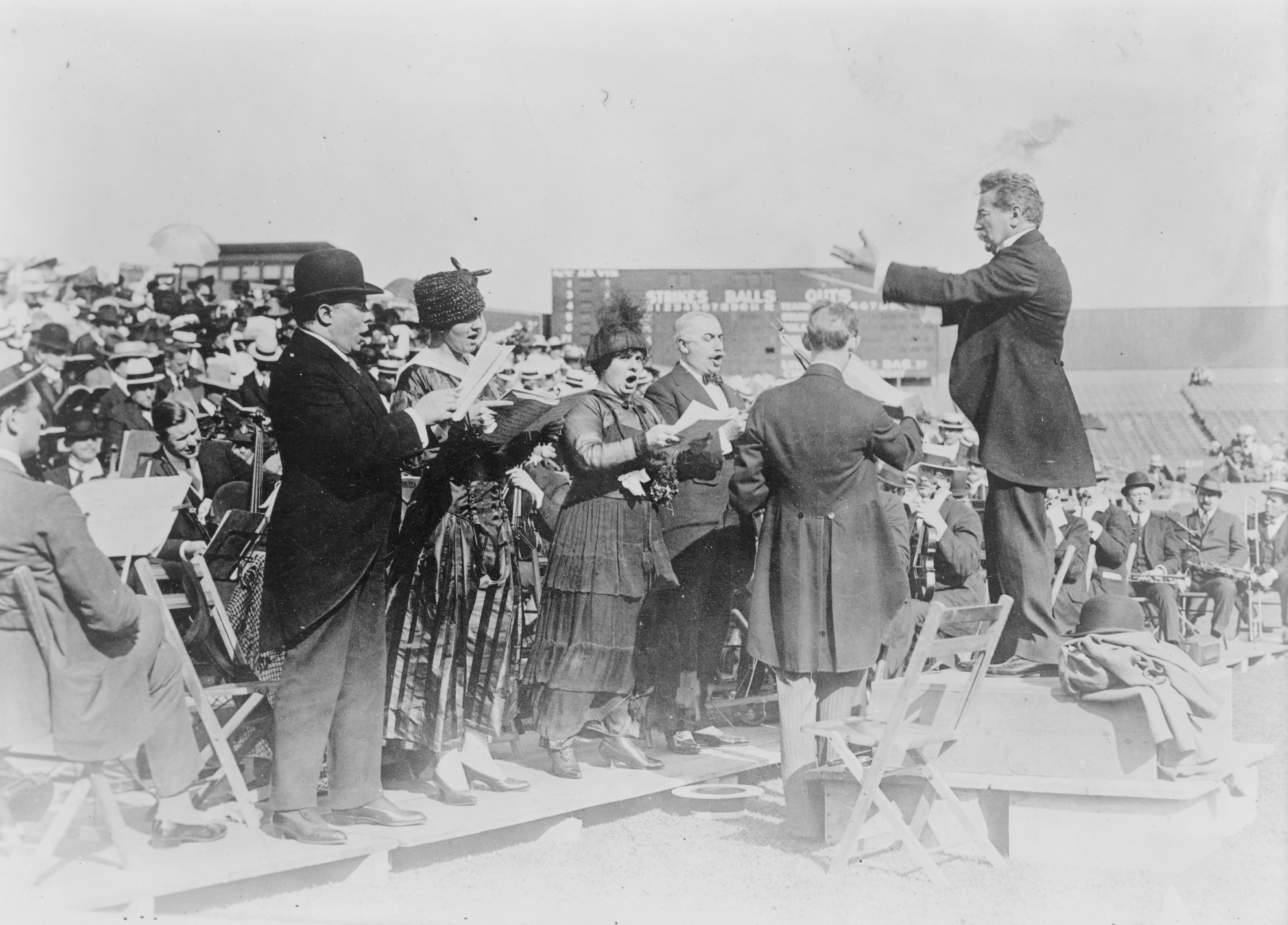 Giuseppe Verdi's Requiem being performed outdoors at the Polo Grounds, New York City. The quartet is (from left to right) Giovanni Zenatello, Louise Homer (under the assumed name of 'Lucile Lawrence'),[1] Maria Gay, and Léon Rothier. The conductor is Louis Koemmenich.